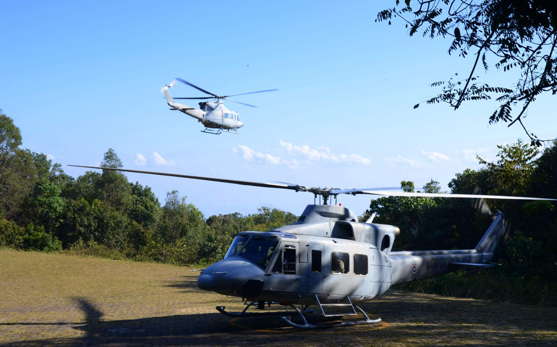 Royal Thai Air Force helicopters at a small helicopter pad just below Wat Phra That Doi Suthep on Doi Suthep, Chiang Mai.